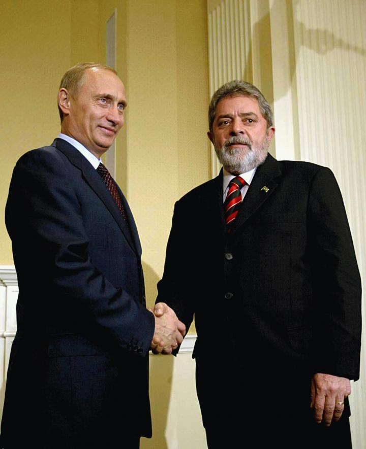 New York. President of Brazil Luiz Inácio Lula da Silva with President of Russia Vladimir Putin